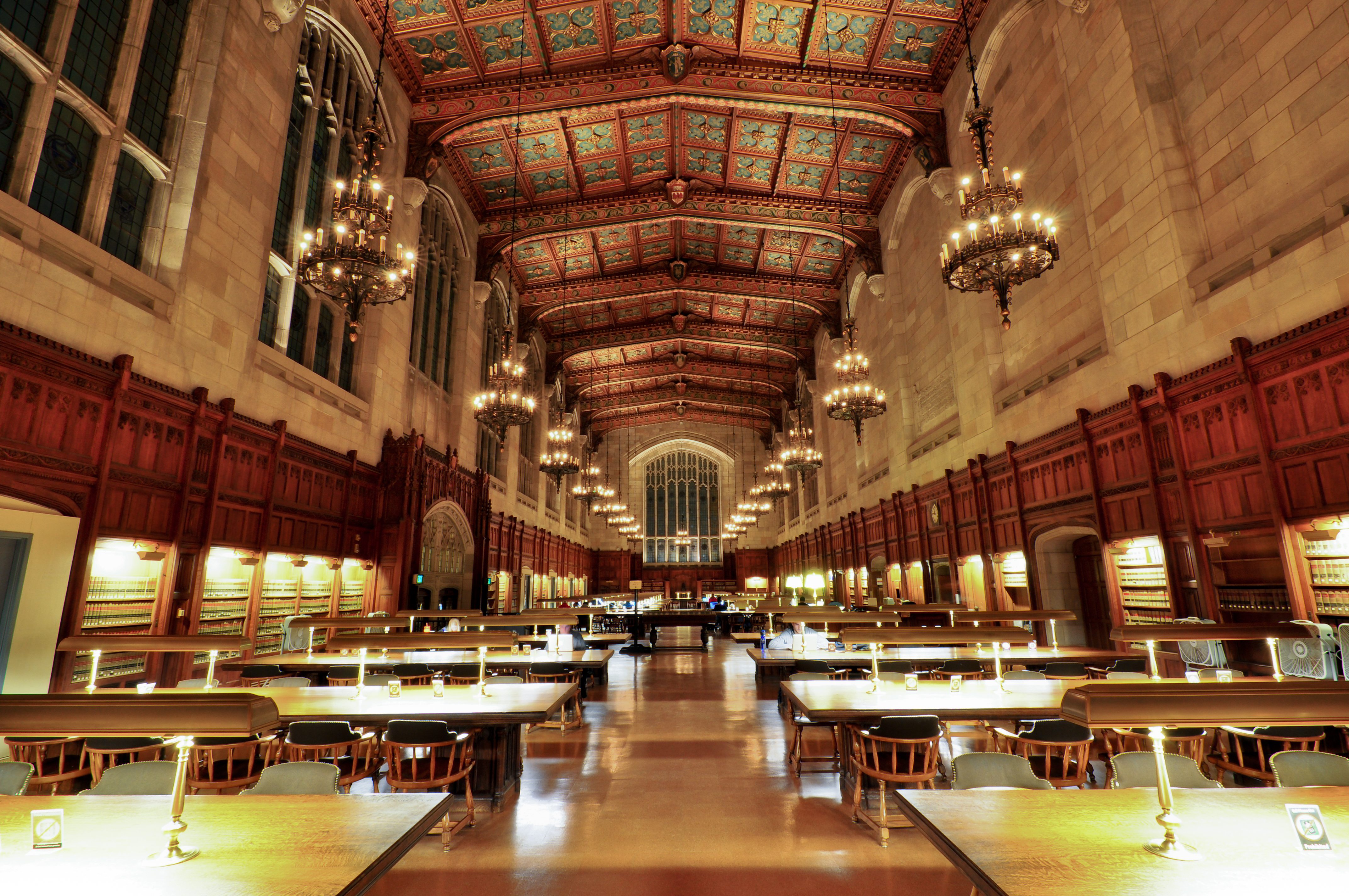 University of Michigan Law Library